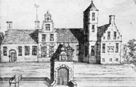 Aylva State te Witmarsum, getekend door J. Stellingwerf